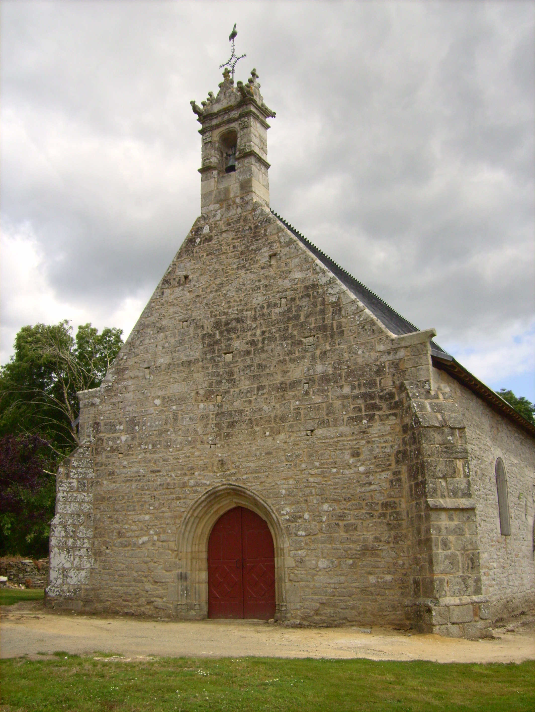 Front of the Mangolerian's chapel, in Monterblanc (France). Chapel of the XVth century many a time reshaped and restored.